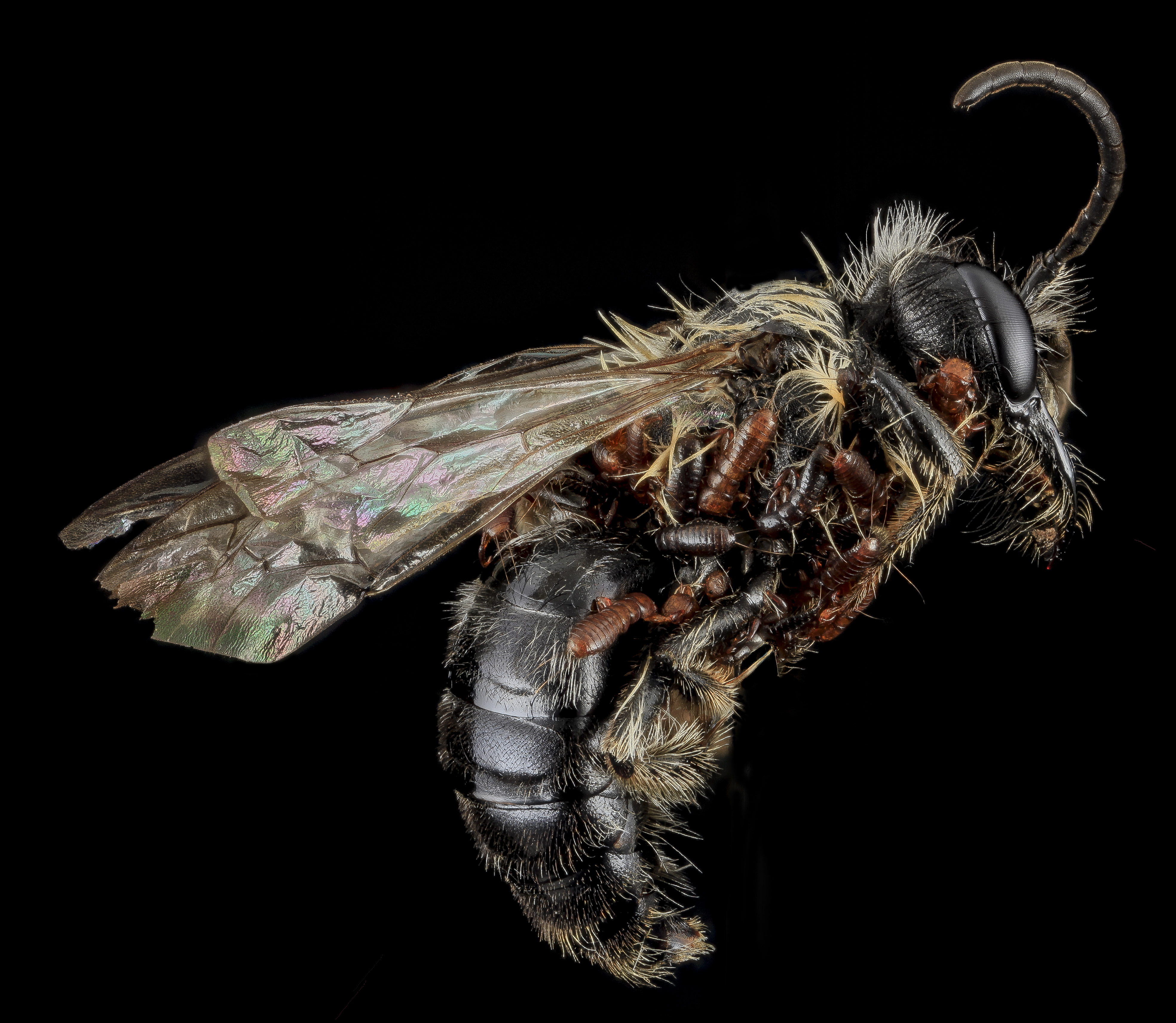 A male Andrena carlini, partially covered in Meloidae beetle triungula. An example of hypermetamorphosis in a species of beetle whose larvae feed as parasitoids. Collected by Jane Whitaker in West Virginia in 2013